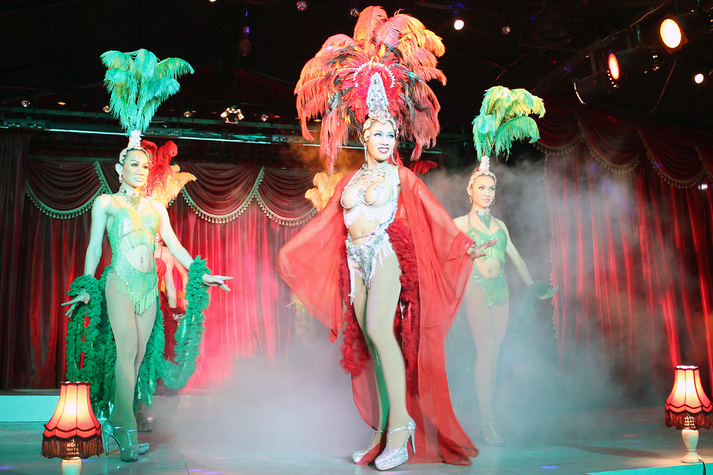 Cabaret Show at Moulin Rouge, Chaweng Beach, Koh Samui, Thailand.